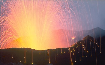 Incandescent molten lava fragments erupting from Stromboli volcano, Italy.